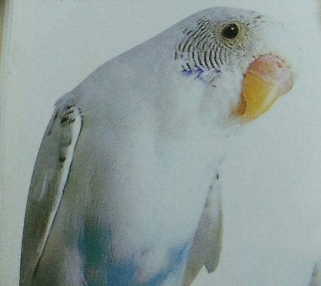 hl